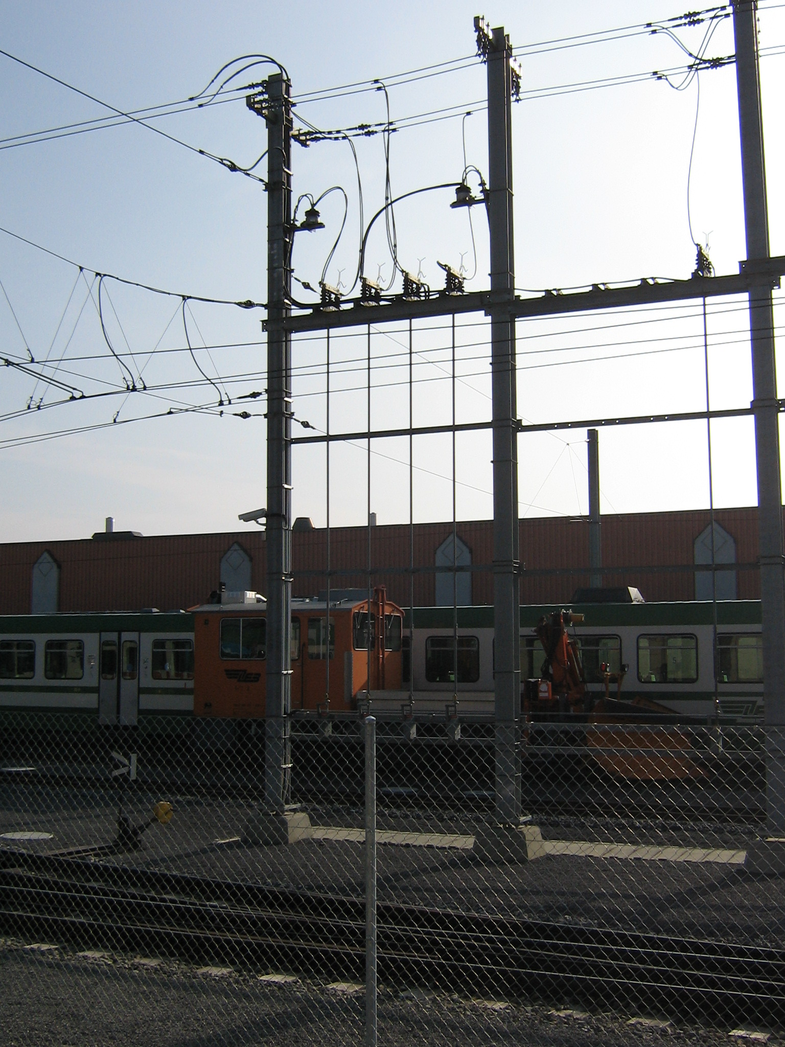 Disconnectors at the station of Échallens